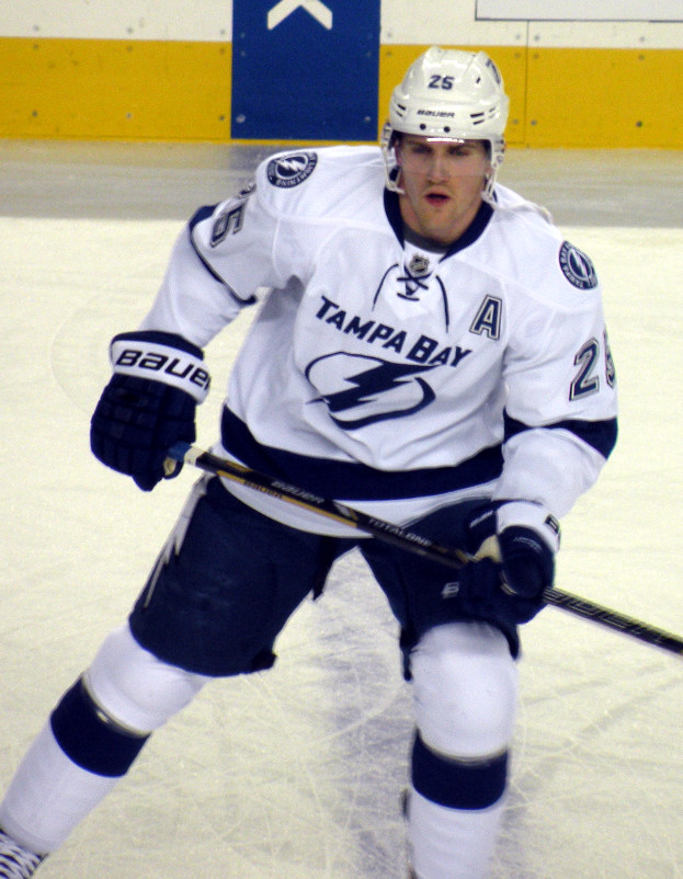 Tampa Bay Lightning defenceman Matt Carle prior to a National Hockey League game in Calgary.